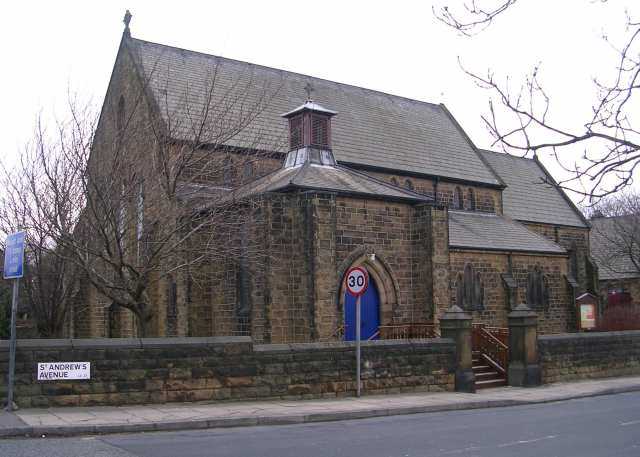 St Andrew's parish church, St Andrew's Avenue, Morley, Leeds, West Yorkshire, seen from the south